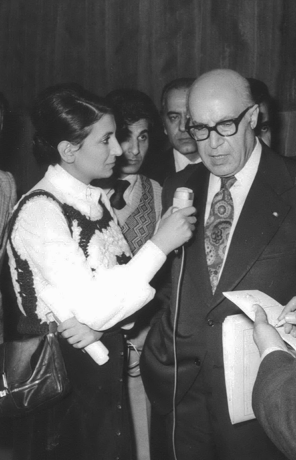 Jafar Sharif-Emami interview